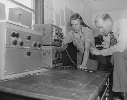 Forests Commission Victoria radio - District Forester, Roly Park circa 1945